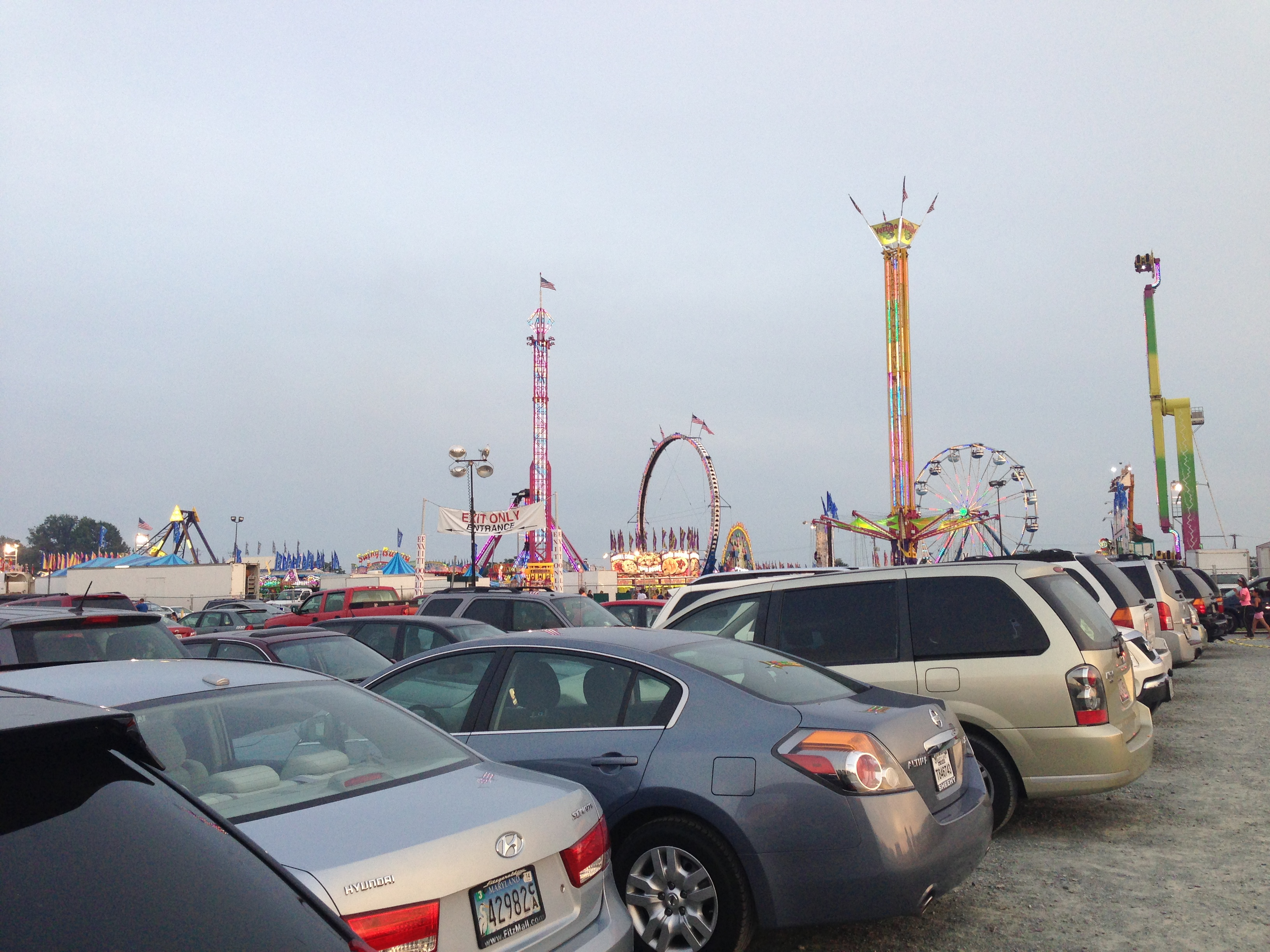 August 2013